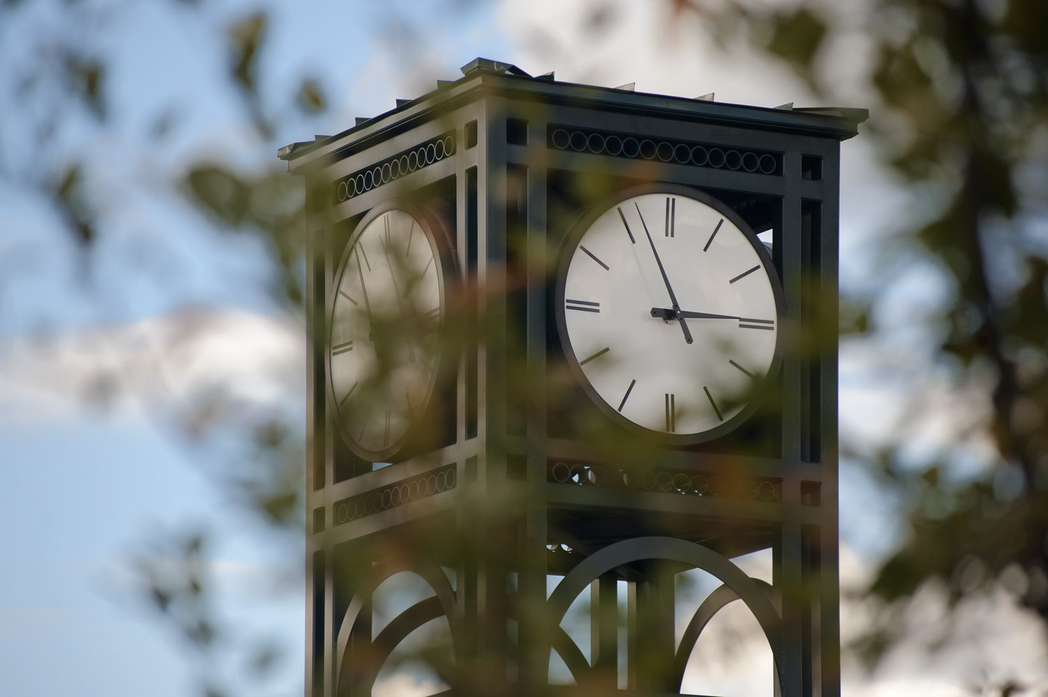 The Frank Morgan Clocktower at Hudson Valley Community College